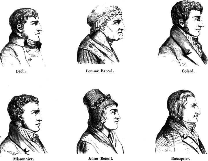 Suspects in the murder of Antoine Bernardin Fualdès (1761–1817)